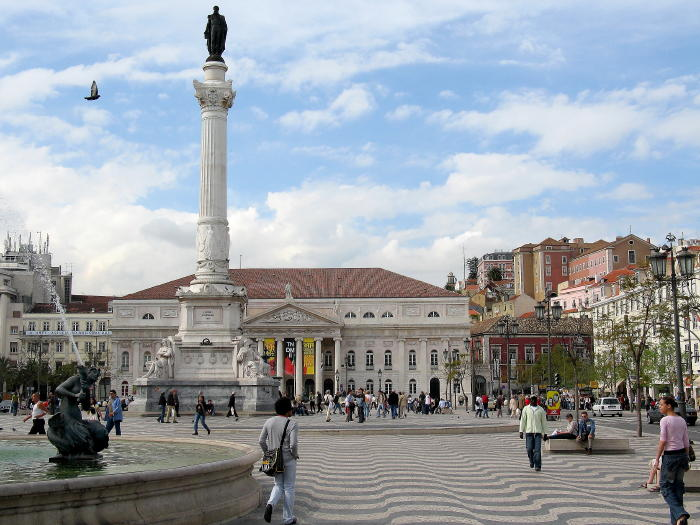 the "Rossio" with bronze fountain and statue of Dom Pedro IV., in the background Teatro Nacional D. Maria II.